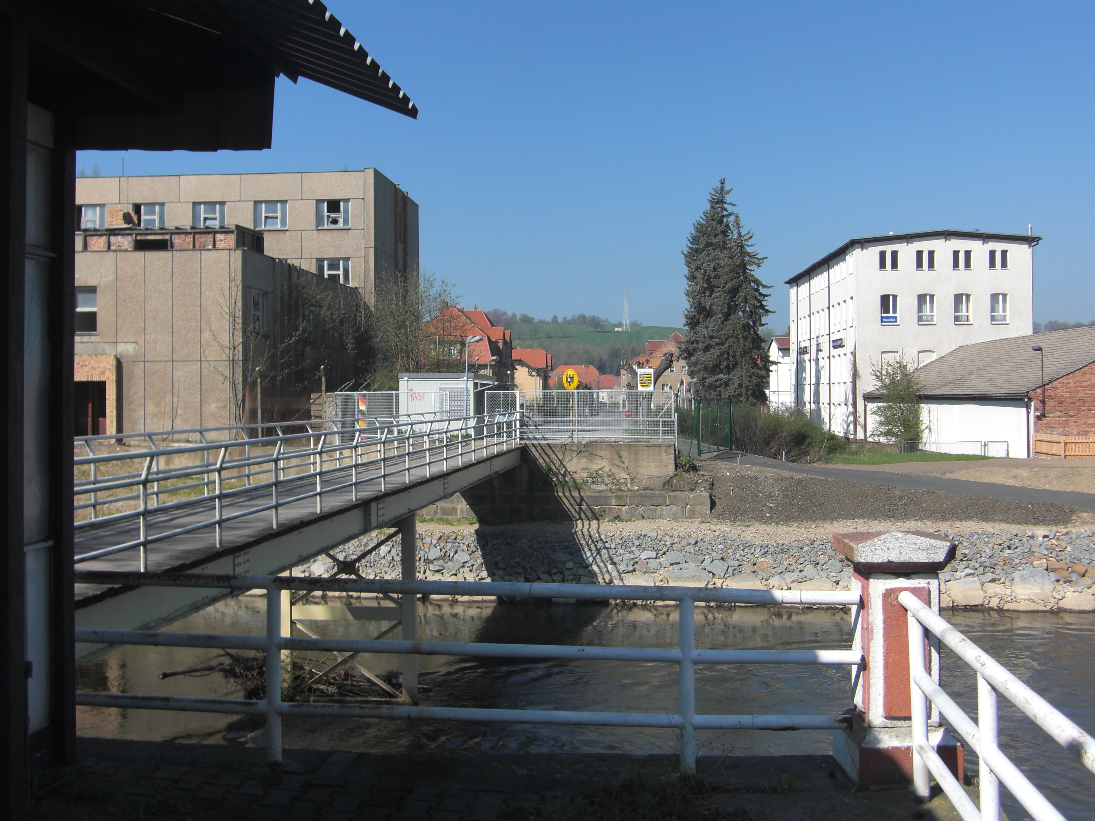 Provisional border bridge over river Lausitzer Neisse / Nysa Luzycka between the steet Bahnhofstrasse of the German city of Ostritz and the Polish town Krzewina / Grunau. View from Poland towards Saxony in Germany. Original bridge was destroyed in 1945. This makeshift only uses half the width of the abutment. Therefore it is unsuitable for car traffic.